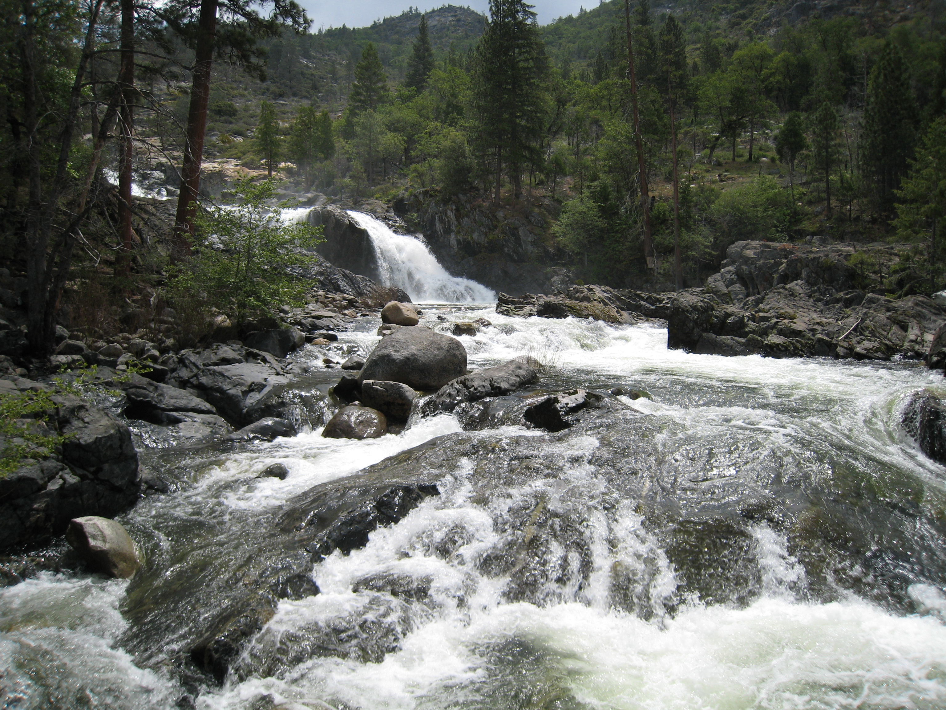 Rapids below Rancheria Falls